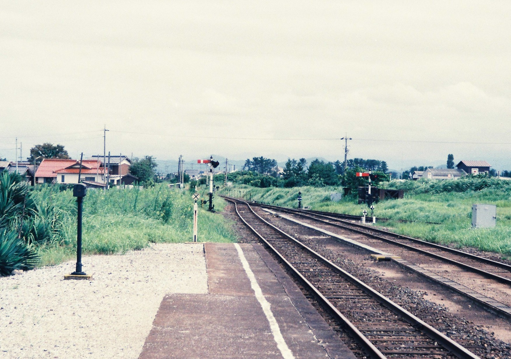 Oshinozu Station (present-day Yonago Airport Station)